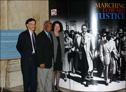 Judge Robert A. Katzmann (2nd Cir.), Judge Damon J. Keith (6th Cir.), and Judge Sonia Sotomayor (2nd Cir.), were among those viewing the Marching Toward Justice display when it was at the Second Circuit. The exhibit, which is a pictorial history of the 14th Amendment, was commissioned by the Damon J.Keith Law Collection of African-American Legal History at Wayne State University in Detroit. Through photographs, drawings and reproductions of documents, the exhibit examines the topics of slavery, black soldiers in the Civil War, the Emancipation Proclamation, and ratification of the 14th Amendment in 1868. It also highlights the role of Thurgood Marshall and other African-American lawyers in the Supreme Court decision, Brown v. the Board of Education, which celebrates its 50th anniversary this year. Published monthly by the Administrative Office of the U.S. Courts Office of Public Affairs One Columbus Circle, N.E.Washington, DC 20544